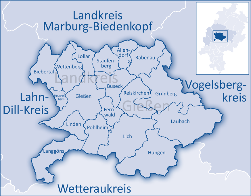 The map shows a district in the area of Gießen (district)